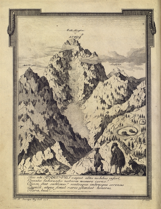 The oldest depiction of Triglav. On the front page of Oryctographia Carniolica by Belsazar Hacquet